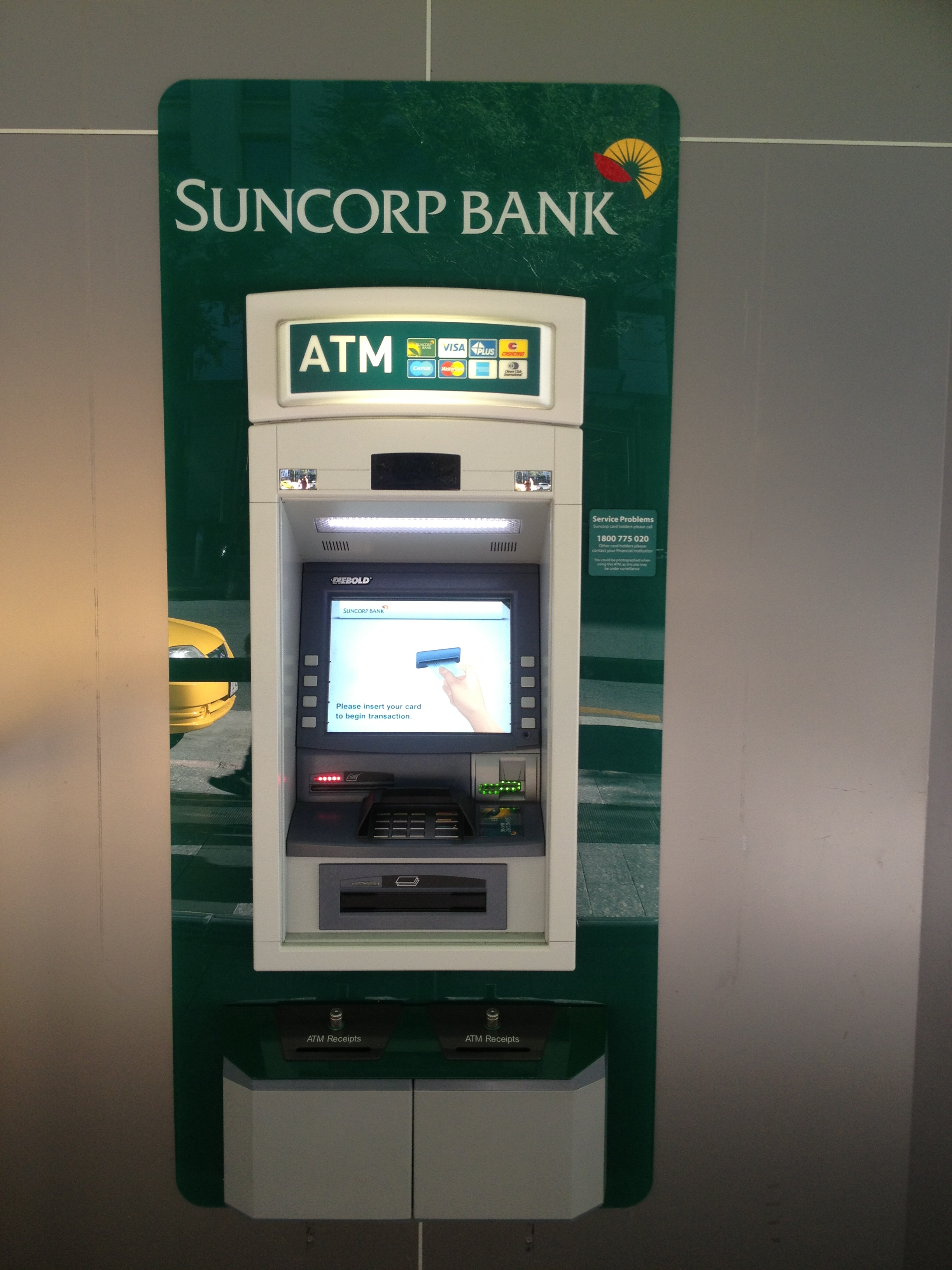 Suncorp Bank Automatic teller machine in Brisbane, Australia